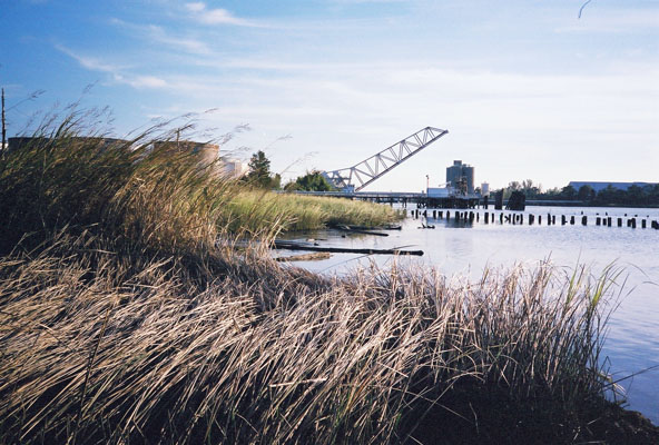 Napier S. Fuller